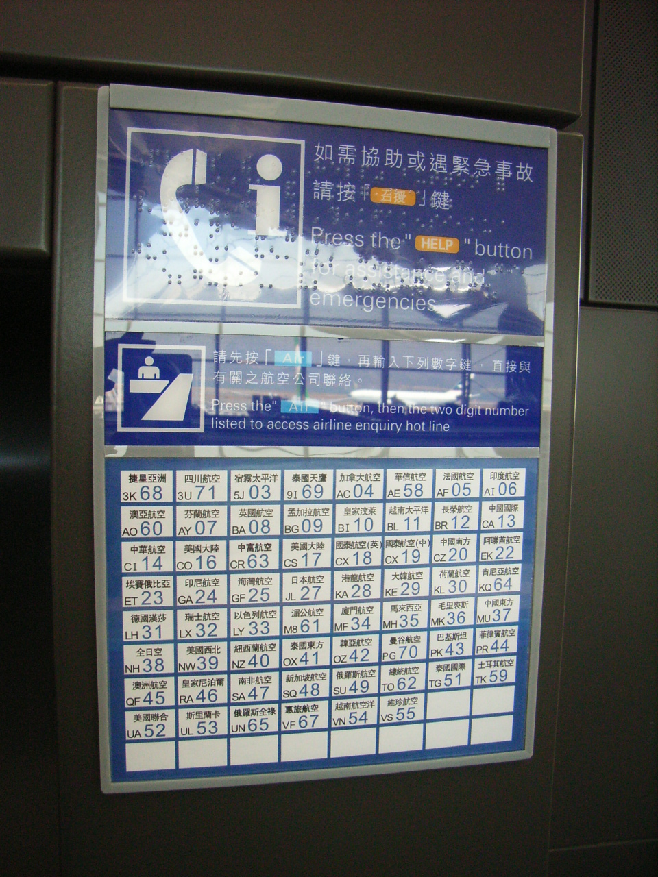 在IATA的航空公司代號 codes of the International Air Transport Association EVATW